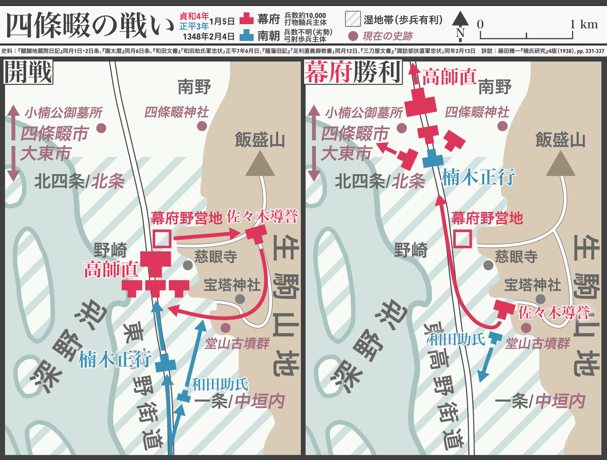 Map of the Battle of Shijōnawate